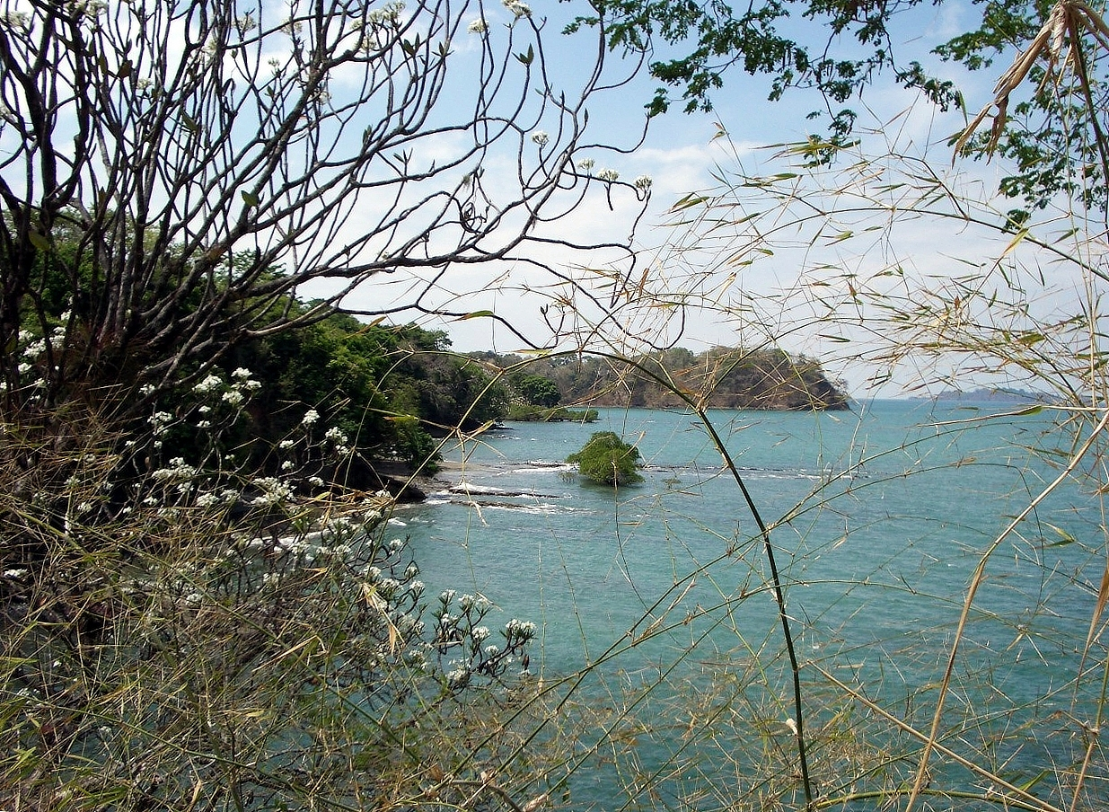 coast of isla boca brava